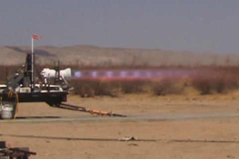 Hotfire testing of 25,000lbf liquid oxygen/liquid methane Broadsword thrust chamber.